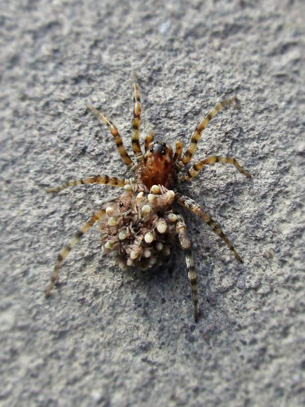 Arctosa perita (Lycosidae sp.), Arnhem, the Netherlands